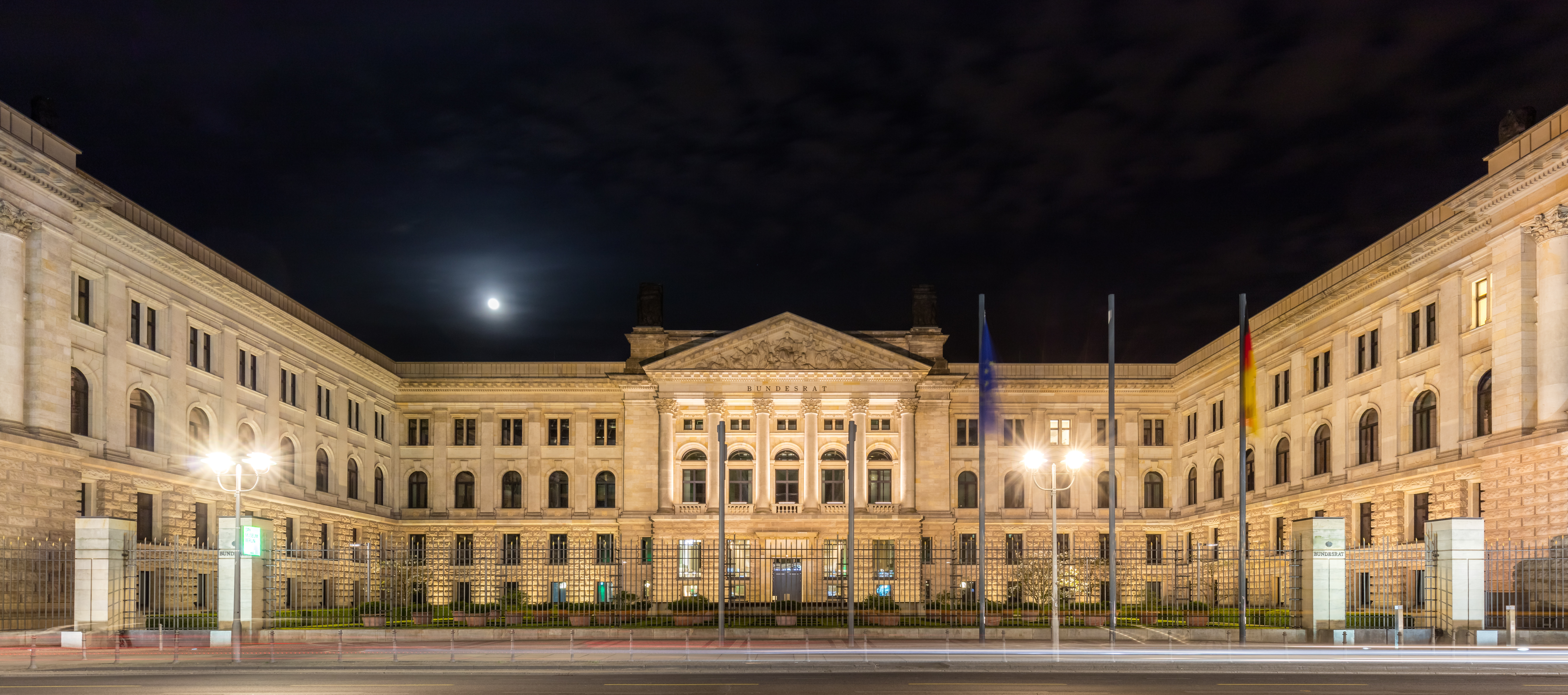 Prussian Senate, Berlin, Germany